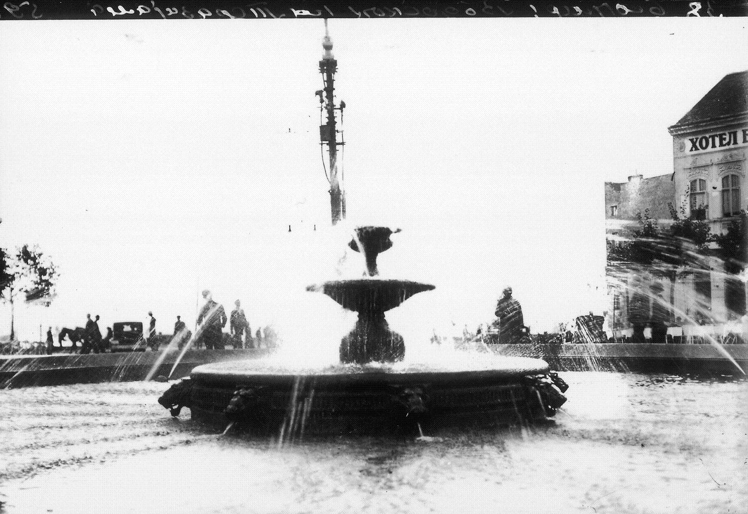 Terazije fountain